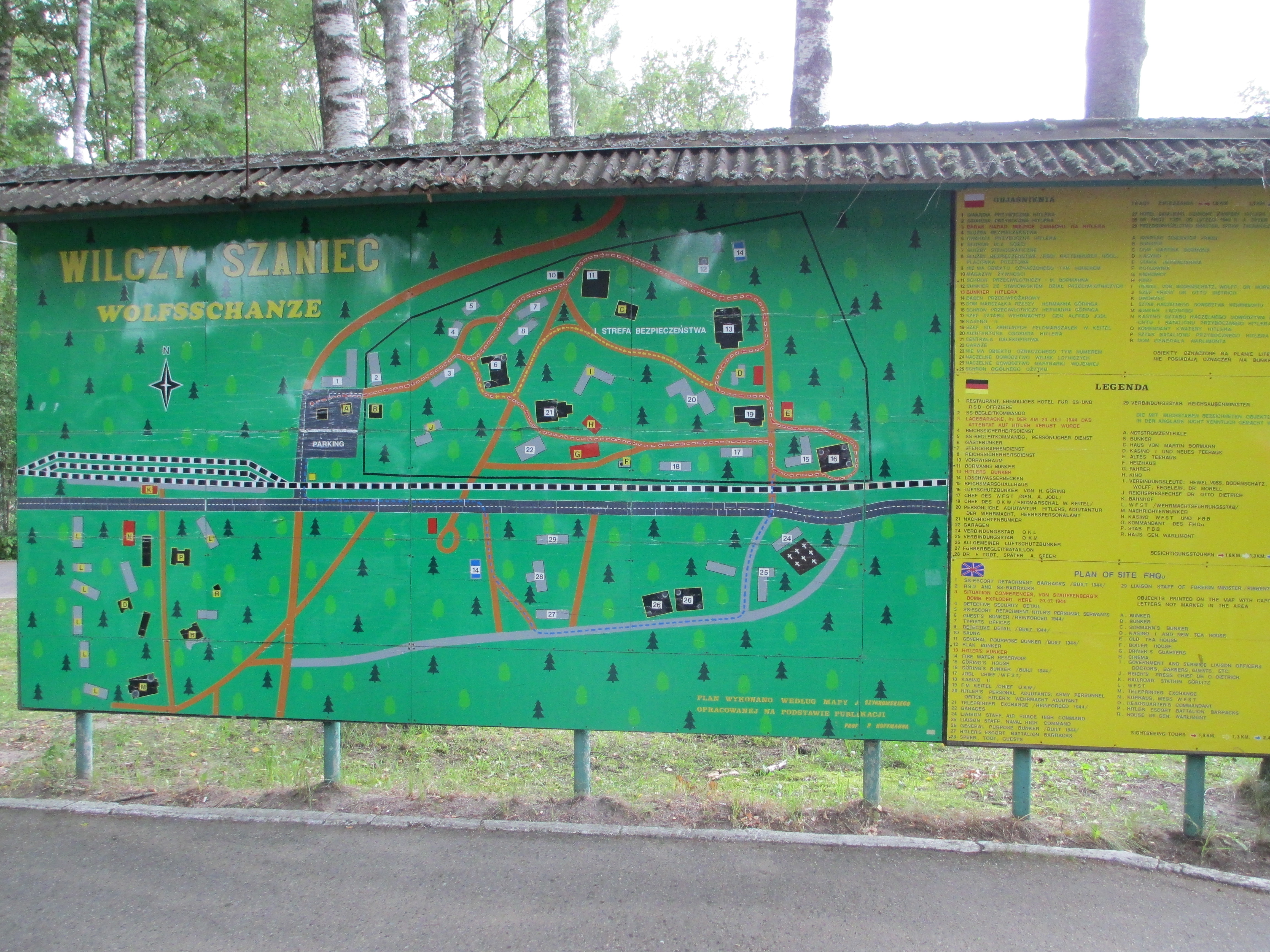 wolfsschanze map at the entrance to wolfsschanze